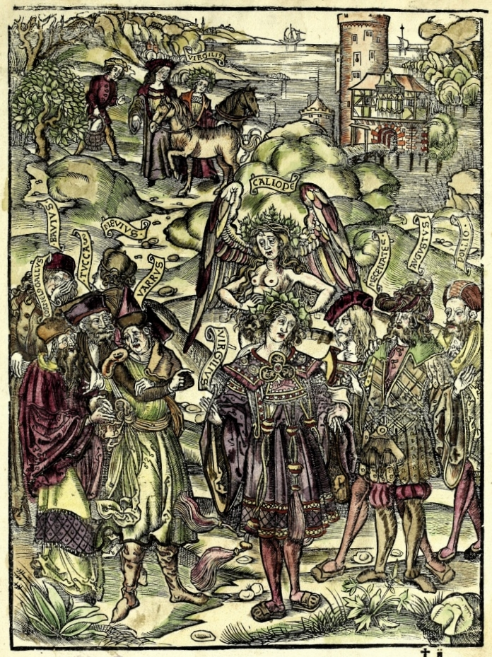 Woodcut of Calliope and Roman poets. First illustration of Opera Vergiliana ed. Josse Bade, Lyon, 1517. Hand-coloured copy in the Getty Research Institute